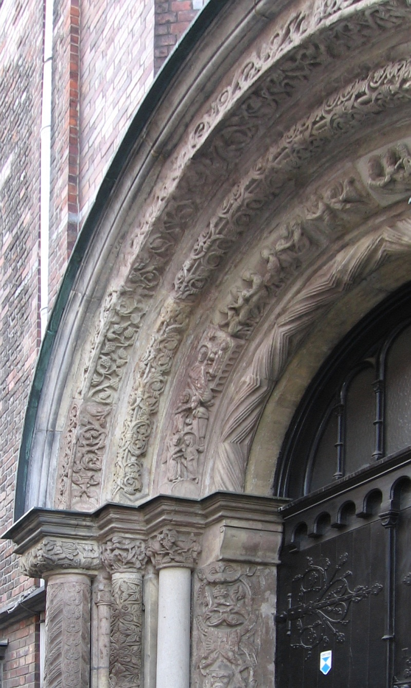 Wrocław, Poland - Mary Magdalene Church - entrance